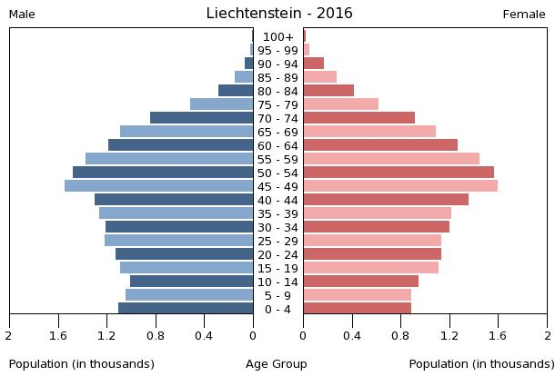 The population pyramid of Liechtenstein illustrates the age and sex structure of population and may provide insights about political and social stability, as well as economic development. The population is distributed along the horizontal axis, with males shown on the left and females on the right. The male and female populations are broken down into 5-year age groups represented as horizontal bars along the vertical axis, with the youngest age groups at the bottom and the oldest at the top. The shape of the population pyramid gradually evolves over time based on fertility, mortality, and international migration trends.